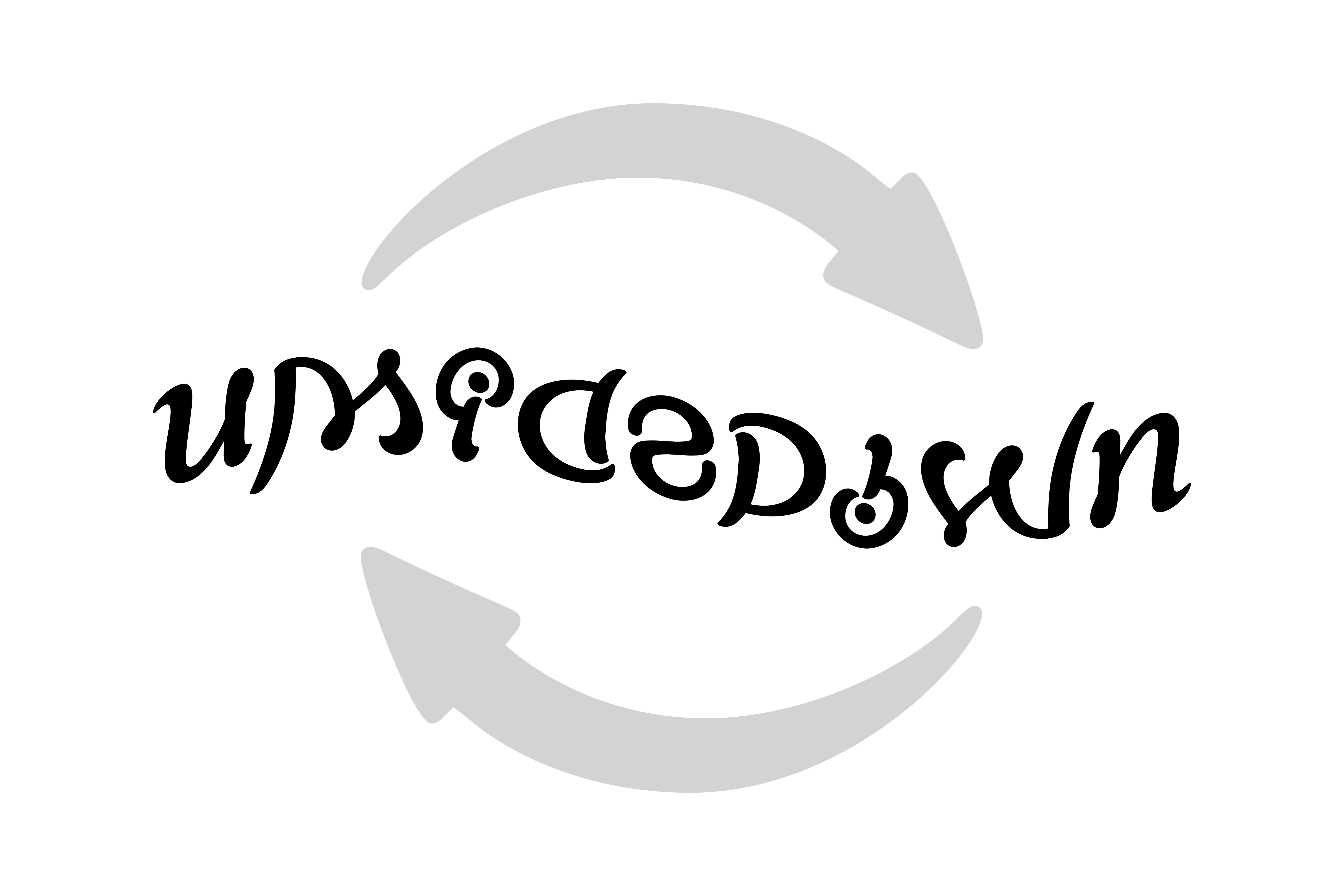 Ambigram upside down. 180° rotational symmetry. Recursive sentence, talking about itself.